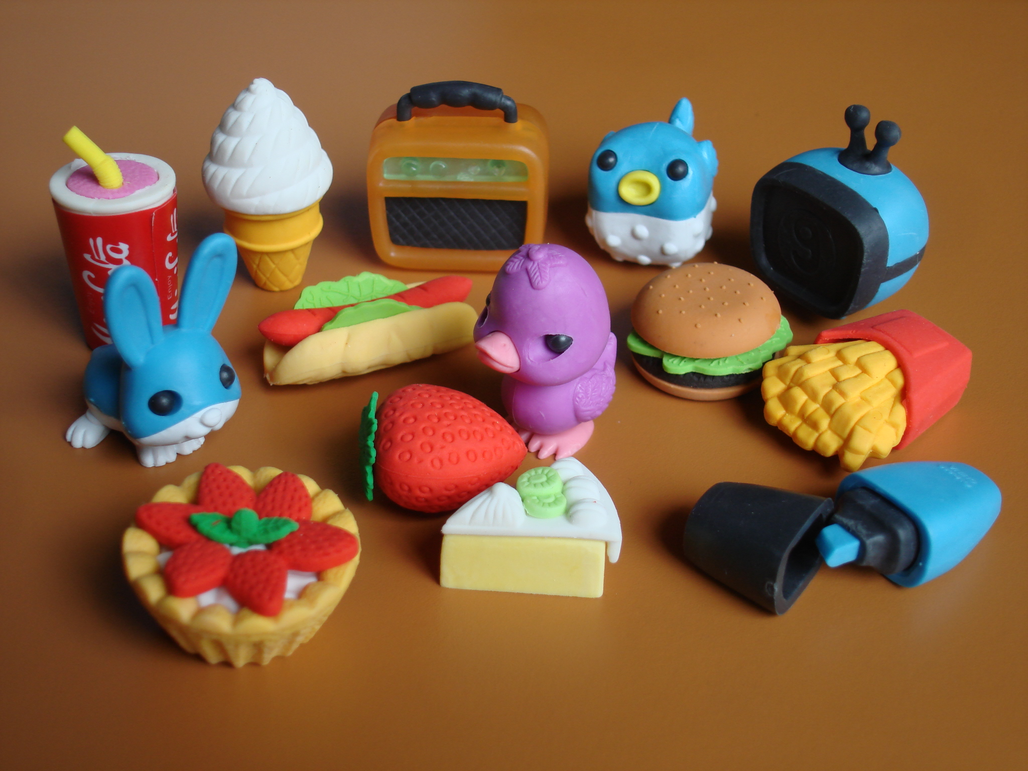 Shaped Erasers (different brands)